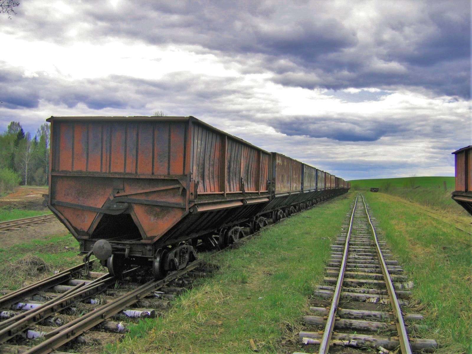 Состав ТСВ на ст. Перегрузочная